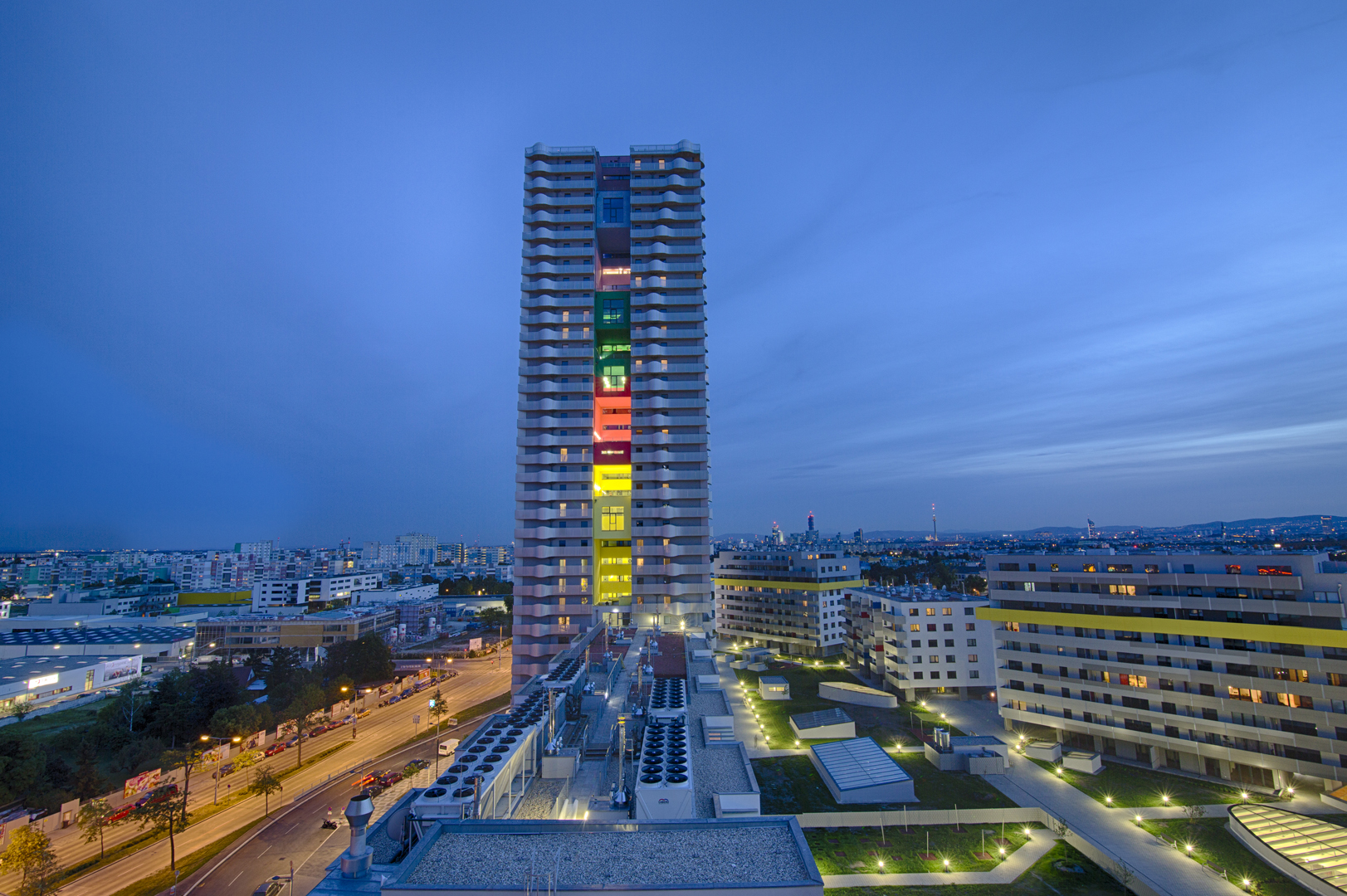 the citygate tower offers communal rooms in different colours to all residents